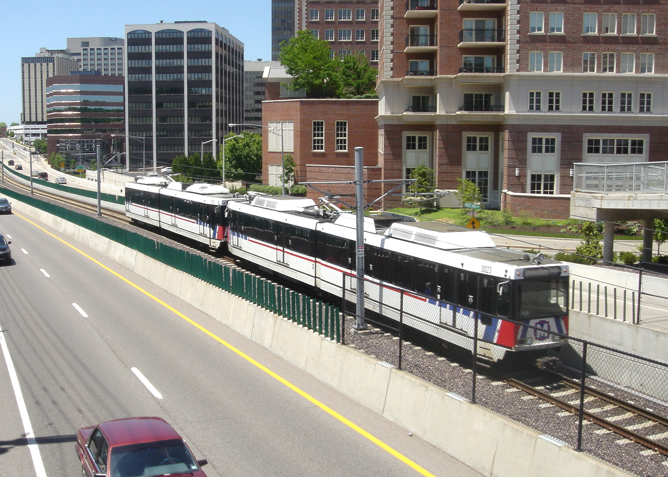 A Blue Line MetroLink train bound for Shrewsbury-Lansdowne I-44 passes by downtown Clayton, Missouri on its was to the Clayton station. The two-car train is travelling in the median of Forest Park Pkwy and is composed of cars 3023 + 4003, which are Siemens SD-460 LRVs (light rail vehicles).